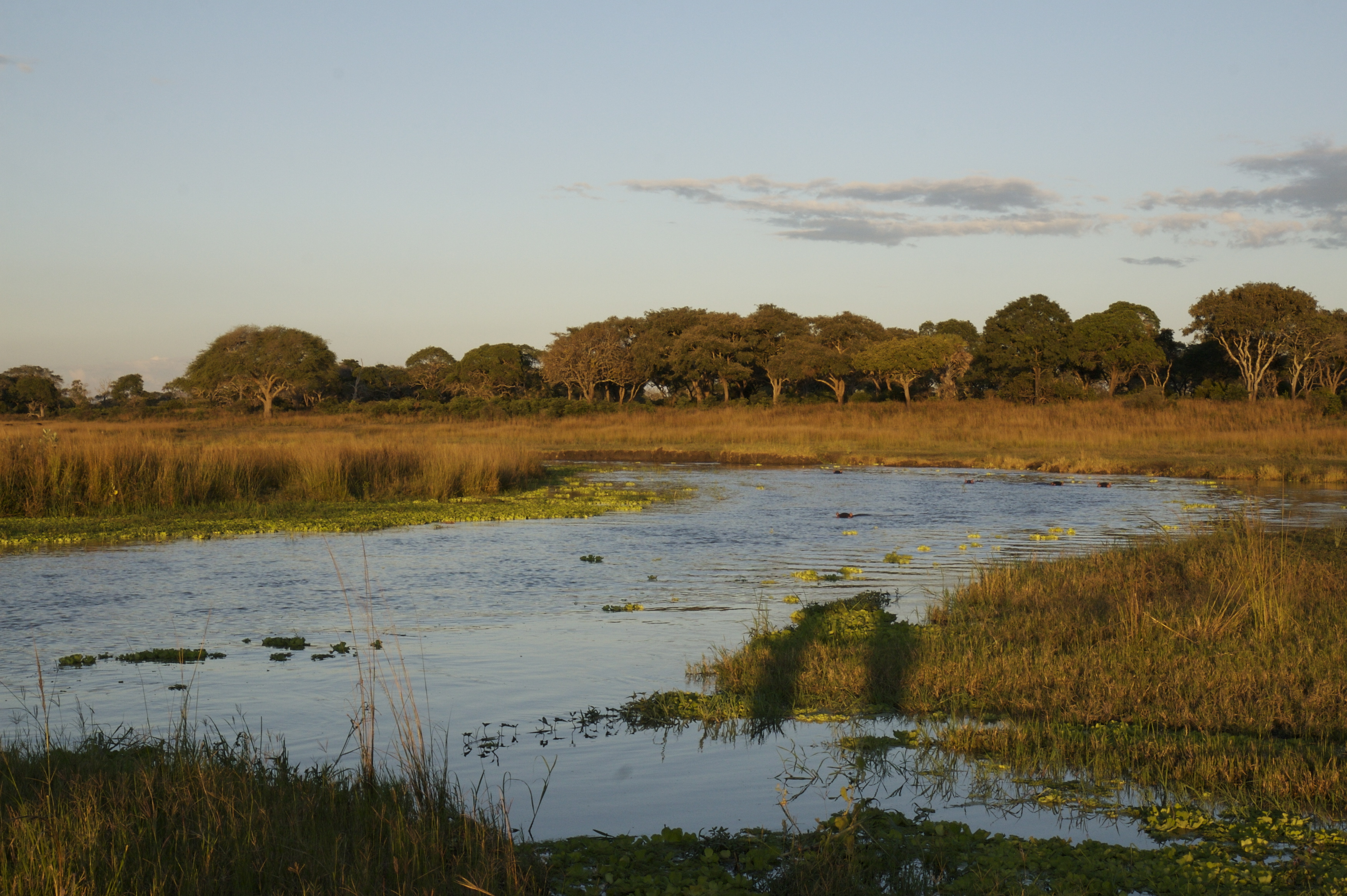 Sundowner (( Image taken off Flikr because of description tags listing it as "Katavi" so that this can be used to illustrate articles about the area. ))